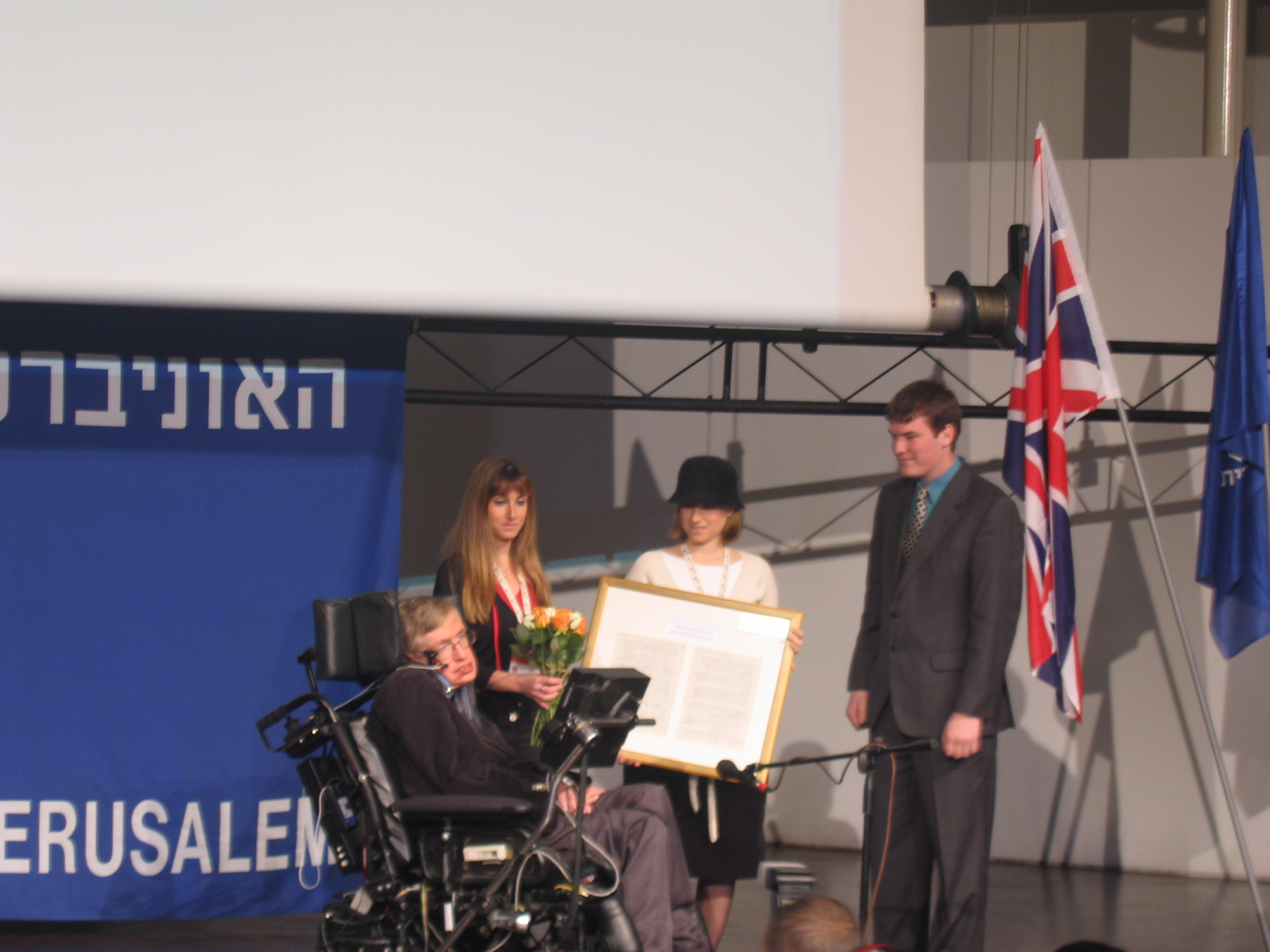 Prof. Stephen Hawking gets a fac-simile of Einstein's handwriting of the article that defines his famous equation, after Hawking's public lecture at the Hebrew University in Jerusalem, Dec. 14, 2006. photo taken by Avi Blizovsky